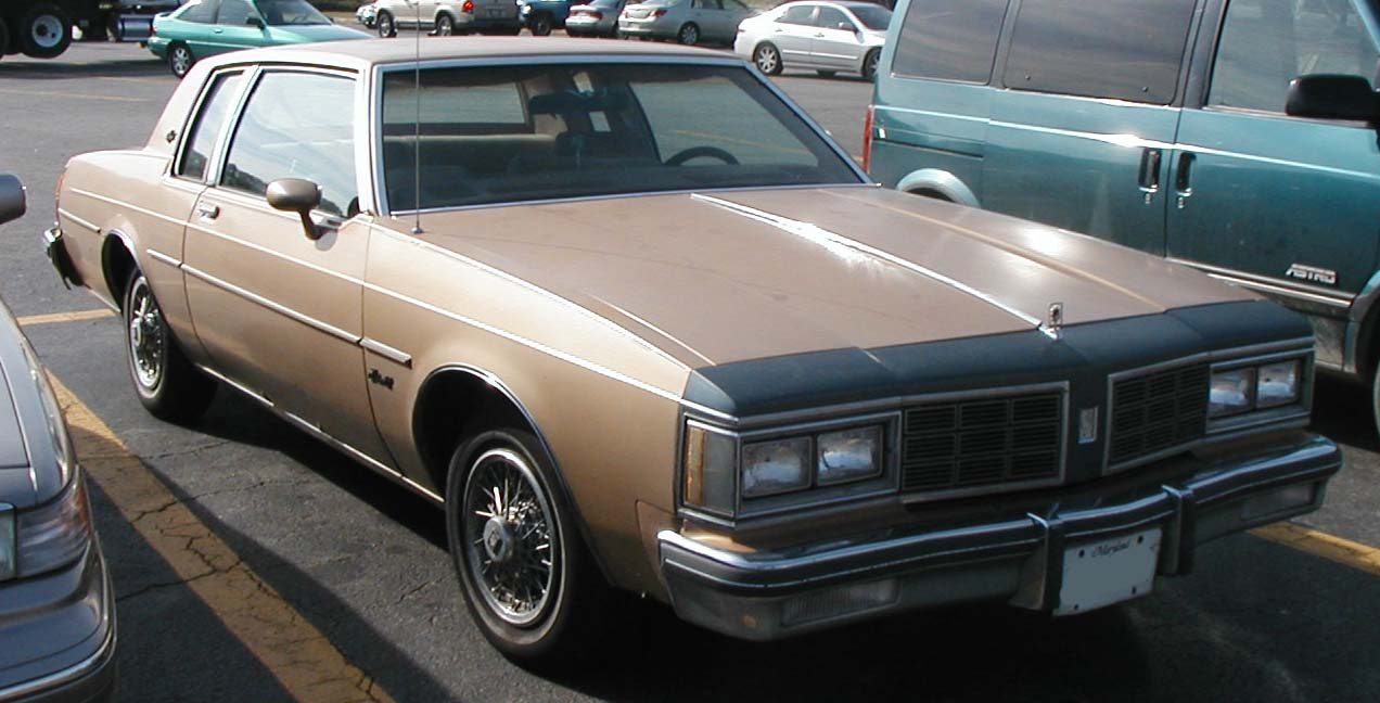 1983 Oldsmobile Delta 88 coupe photographed in USA.